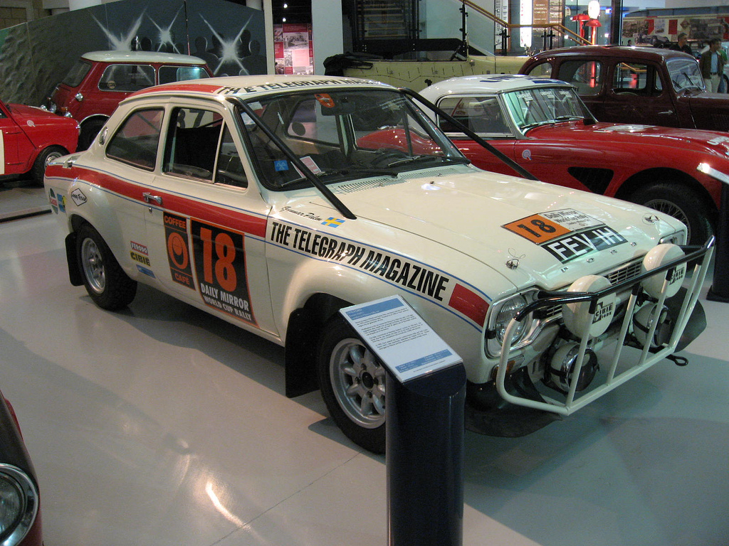 The Ford Escort (pushrod engined prototype based on the RS1600) which won the 1970 London to Mexico World Cup Rally, in the hands of Hannu Mikkola, at the Heritage Motor Centre in Gaydon, Warwickshire, England. Mikkola's co-driver was Gunnar Palm.